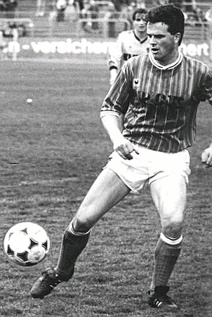 Title: FDGB-Pokal, Halbfinale, Dynamo Dresden - FC Vorwärts Frankfurt Factual corrections and alternative descriptions are encouraged separately from the original description. Additionally errors can be reported at this page to inform the Bundesarchiv. Original historic description: ADN-Hiekel-14.4.90- Dresden: Das FDGB-Pokal-Halbfinalspiel zwischen Dynamo Dresden und dem FC Vorwärts Frankfurt endete mit einem 3:0 Erfolg für die Gastgeber. Hier Lothar Hause vom FCV